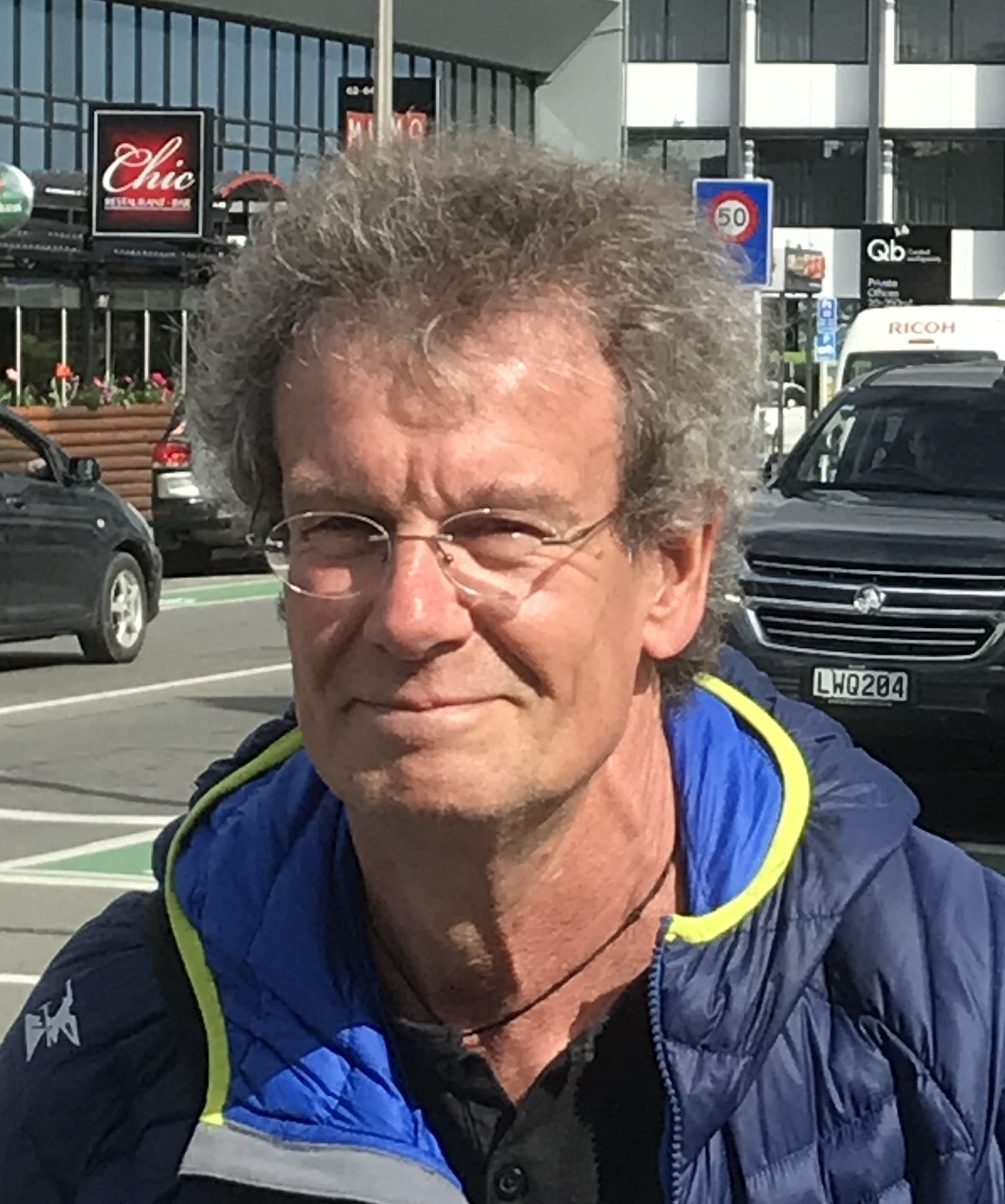 Gerd Pasch in October 2019